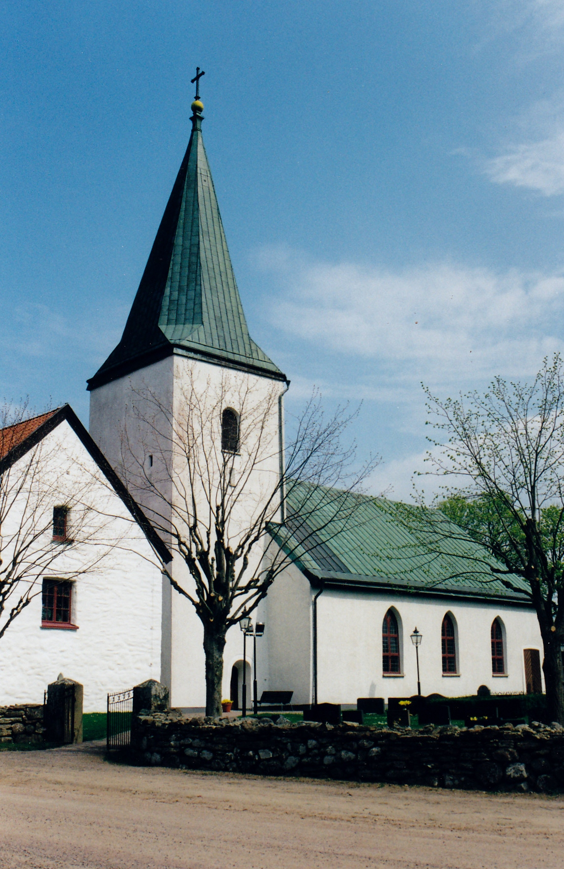 Bergs kyrka,Västra Götland,country